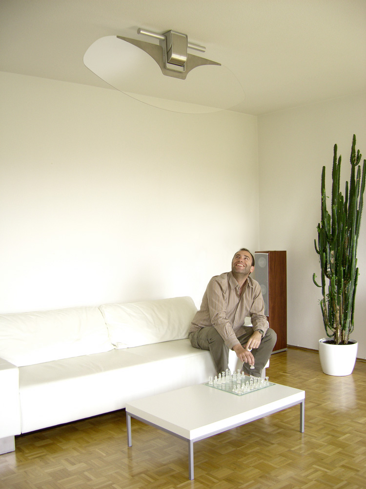 Image of a modern THE SOLITAIRE Punkah